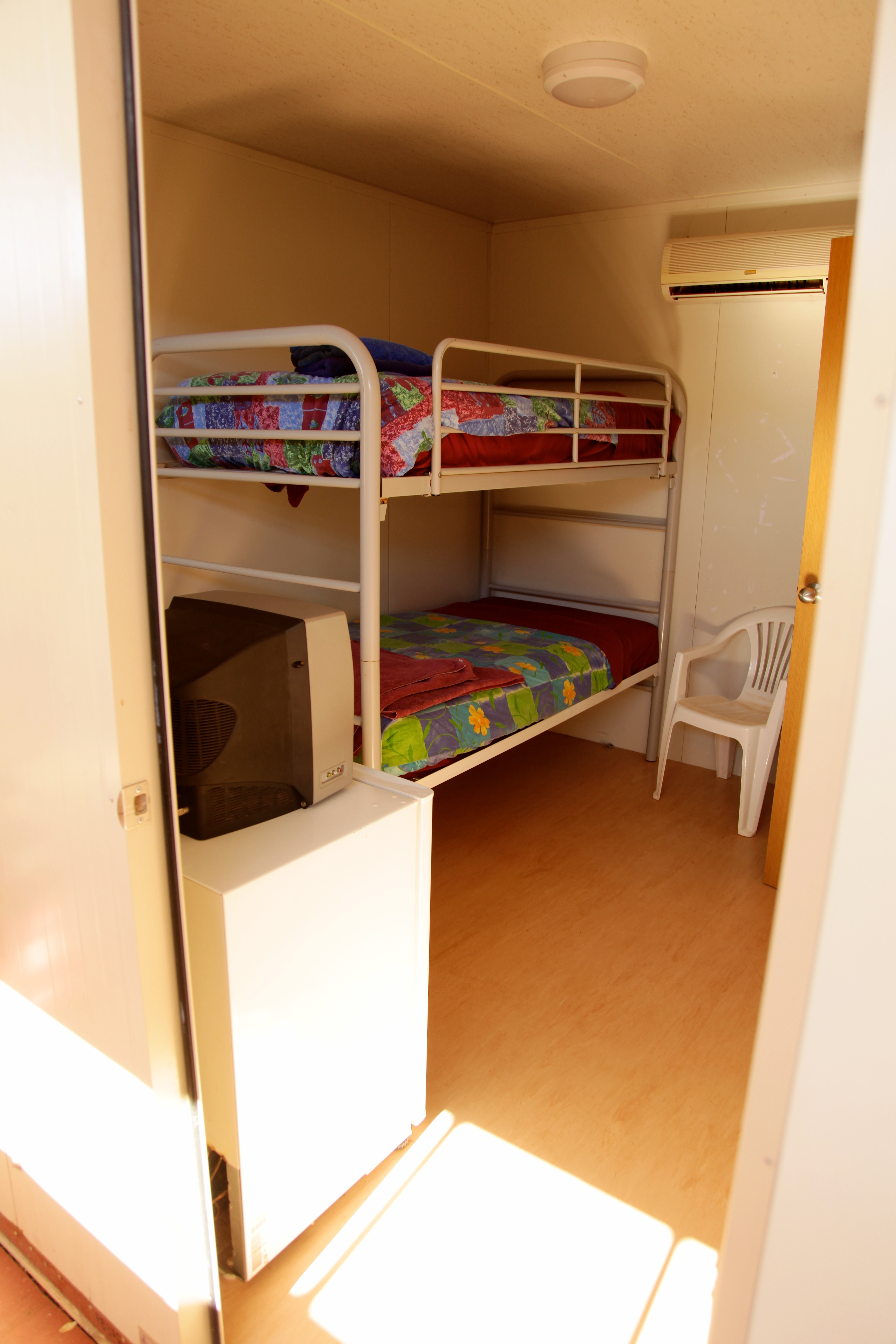 Leonora Altrenative Place of Detention